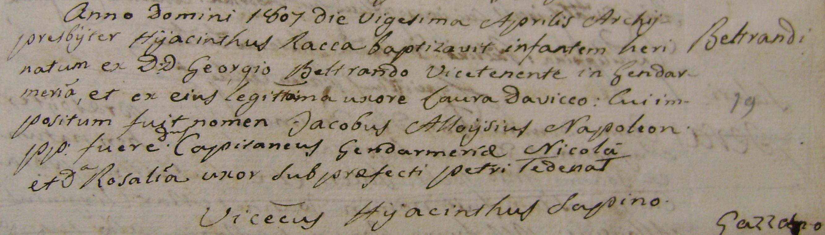 Certificat de naissance de Aloysius Bertrand